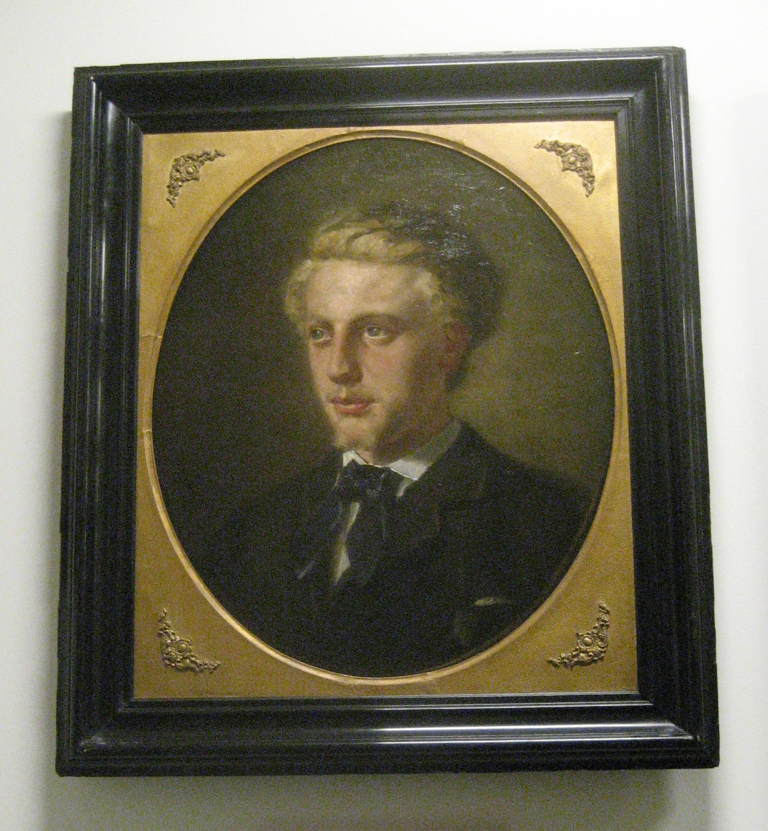 Painting of Dutch writer Jacques Perk (1859-1881) by Herman Jacob van der Voort in de Betouw (1847-1902)